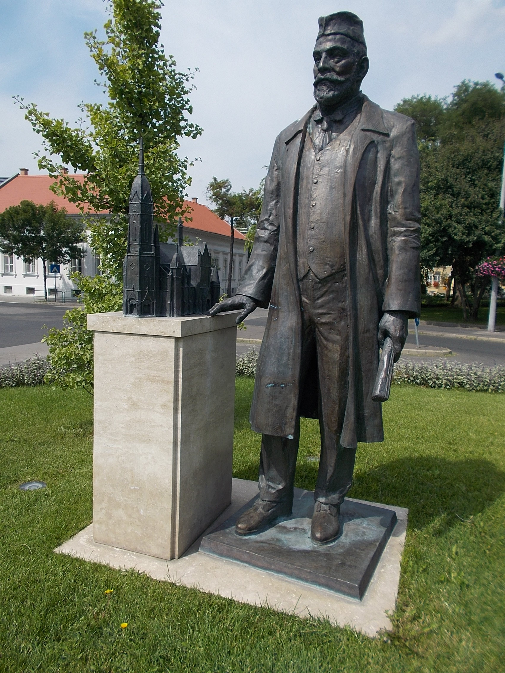 Statue of Ödön Lechner - Kőrösi Csoma út, Budapest District X..